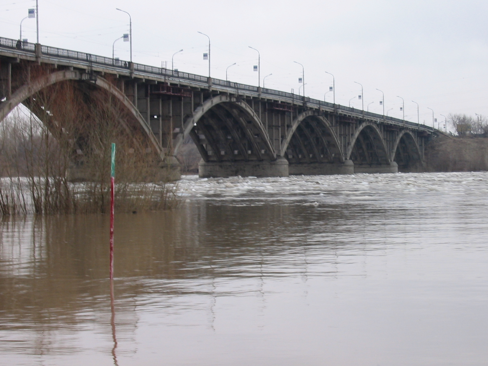 Bridge in Biysk Мост в Бийске